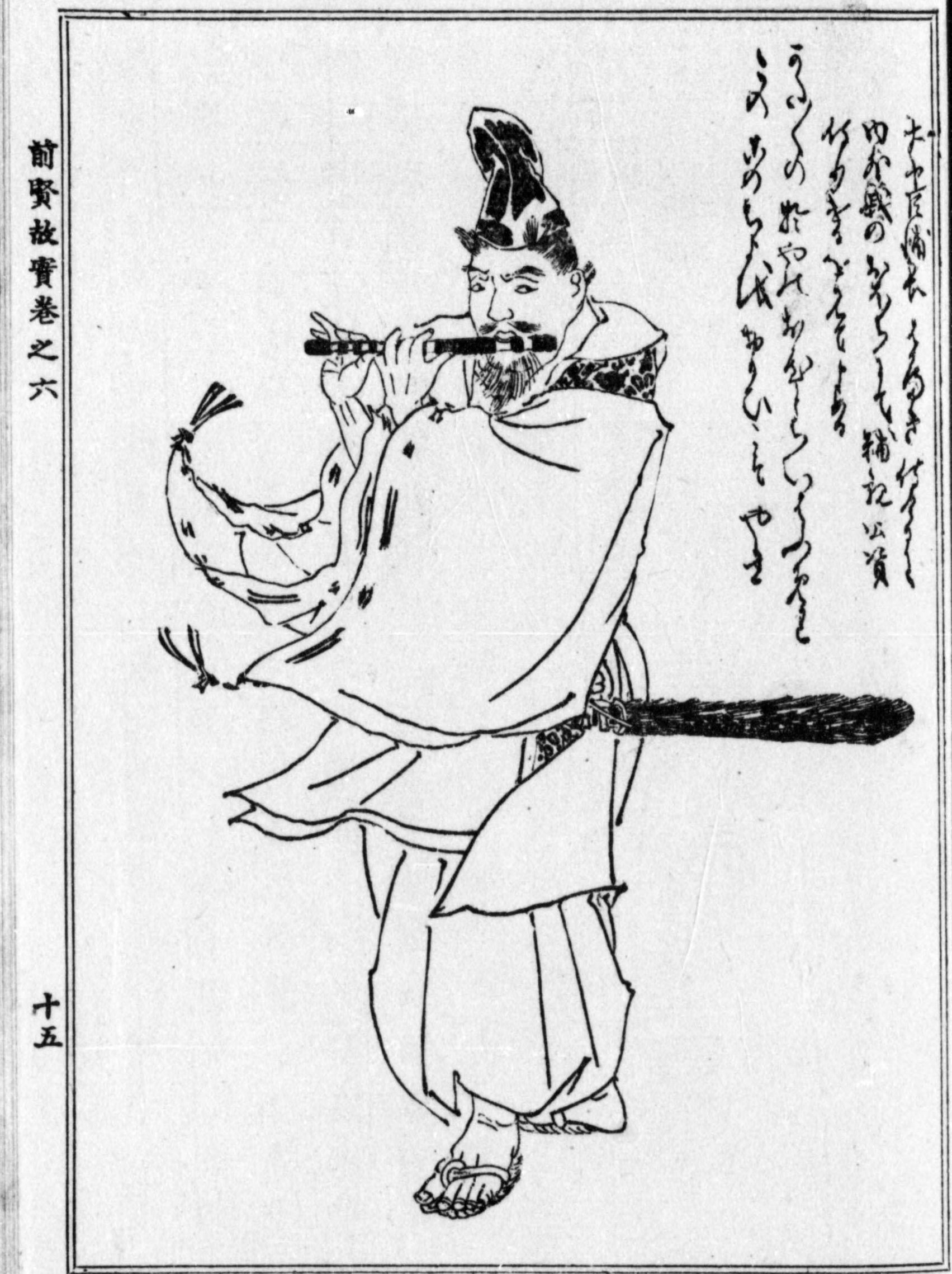 Historic thinking of HUJIWARA Yasumasa by KIKUCHI Yohsai